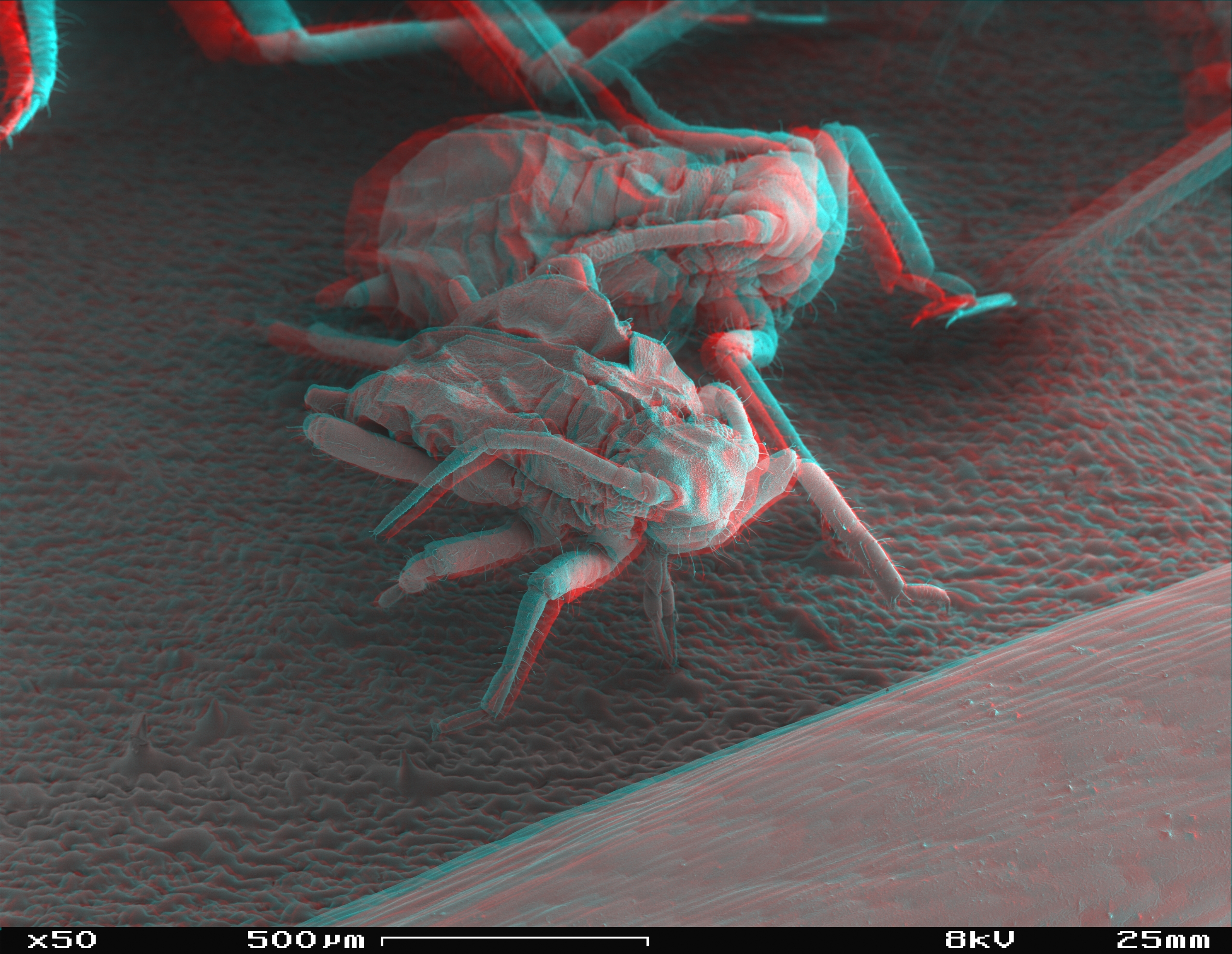 Anaglyph SEM image of Aphis fabae, magnification 50x